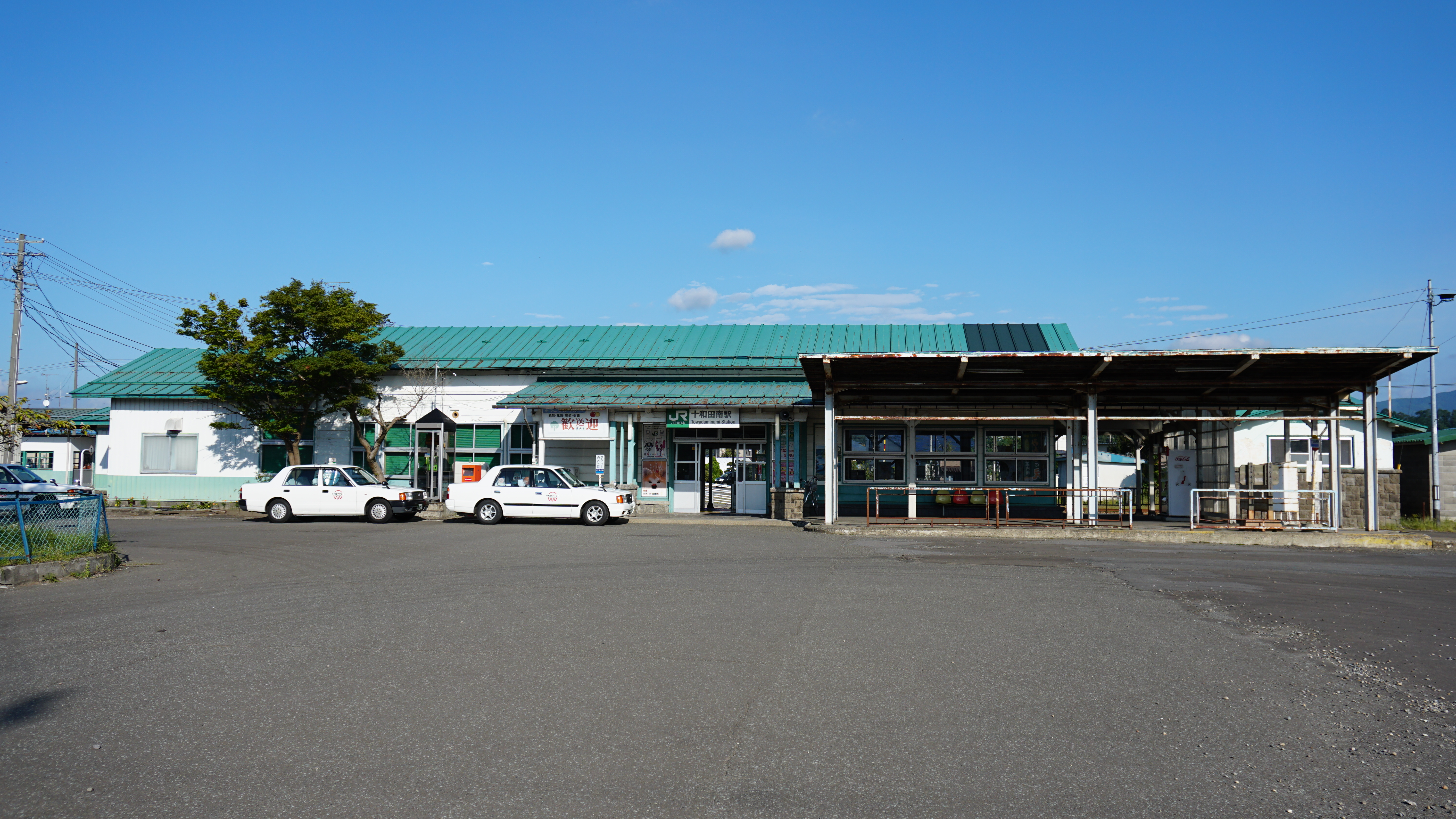 Towadaminami Station on the Hanawa Line in Kazuno City, Akita, Japan